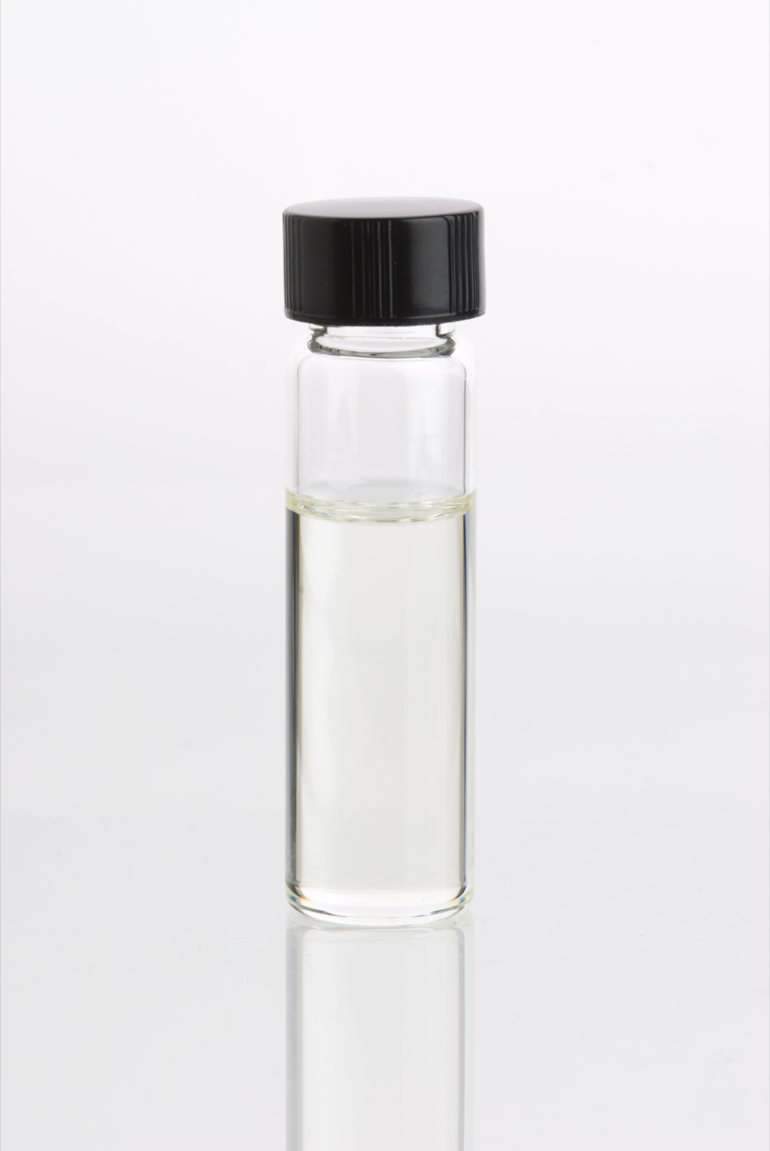 Glass vial containing Fennel Essential Oil